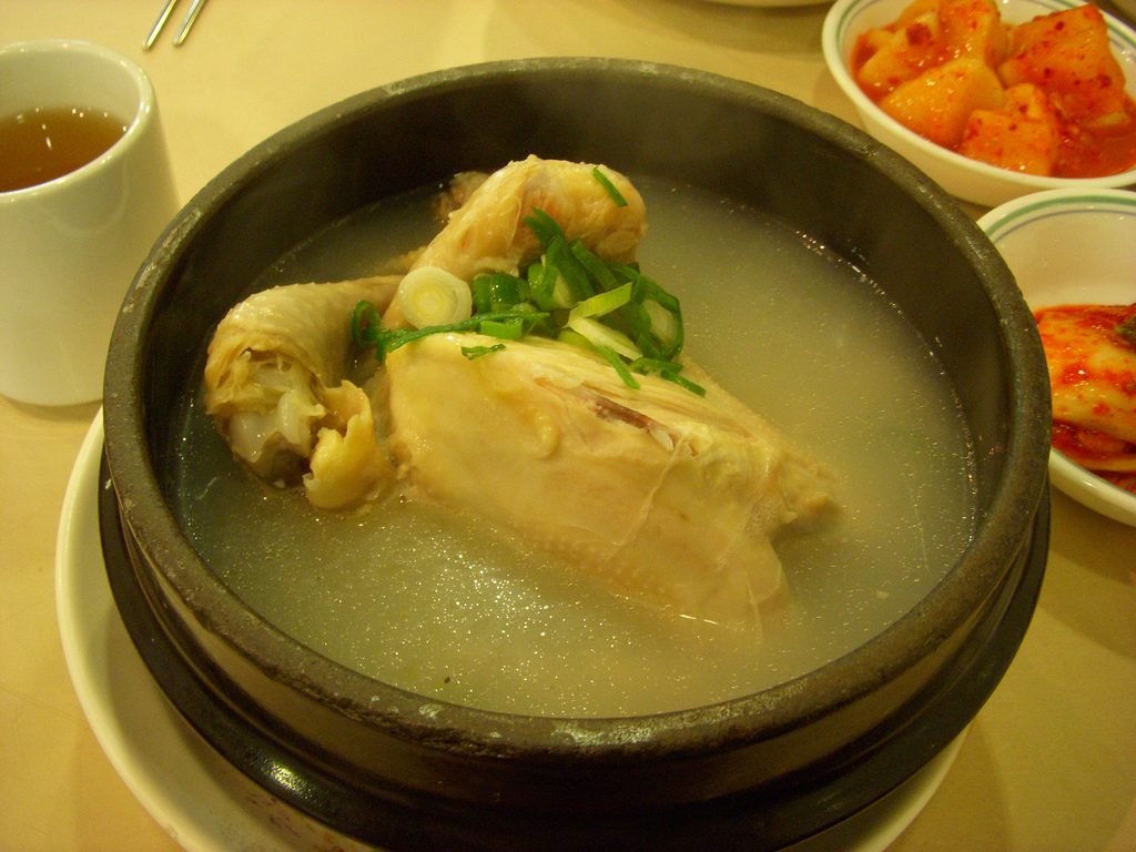 Samgyetang, a chiken ginseng soup in Korean cuisine